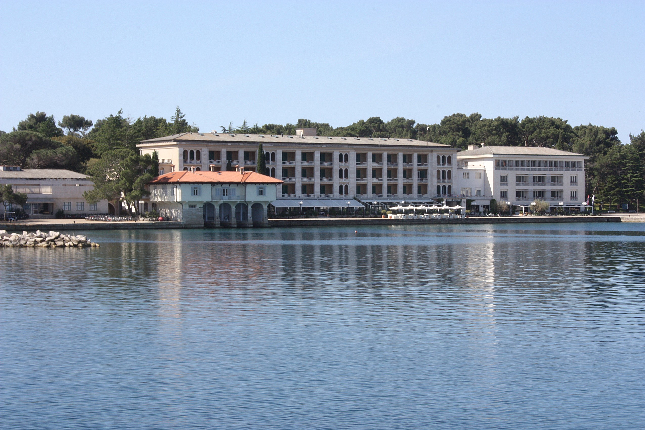 Brijuni, the hotel Neptun